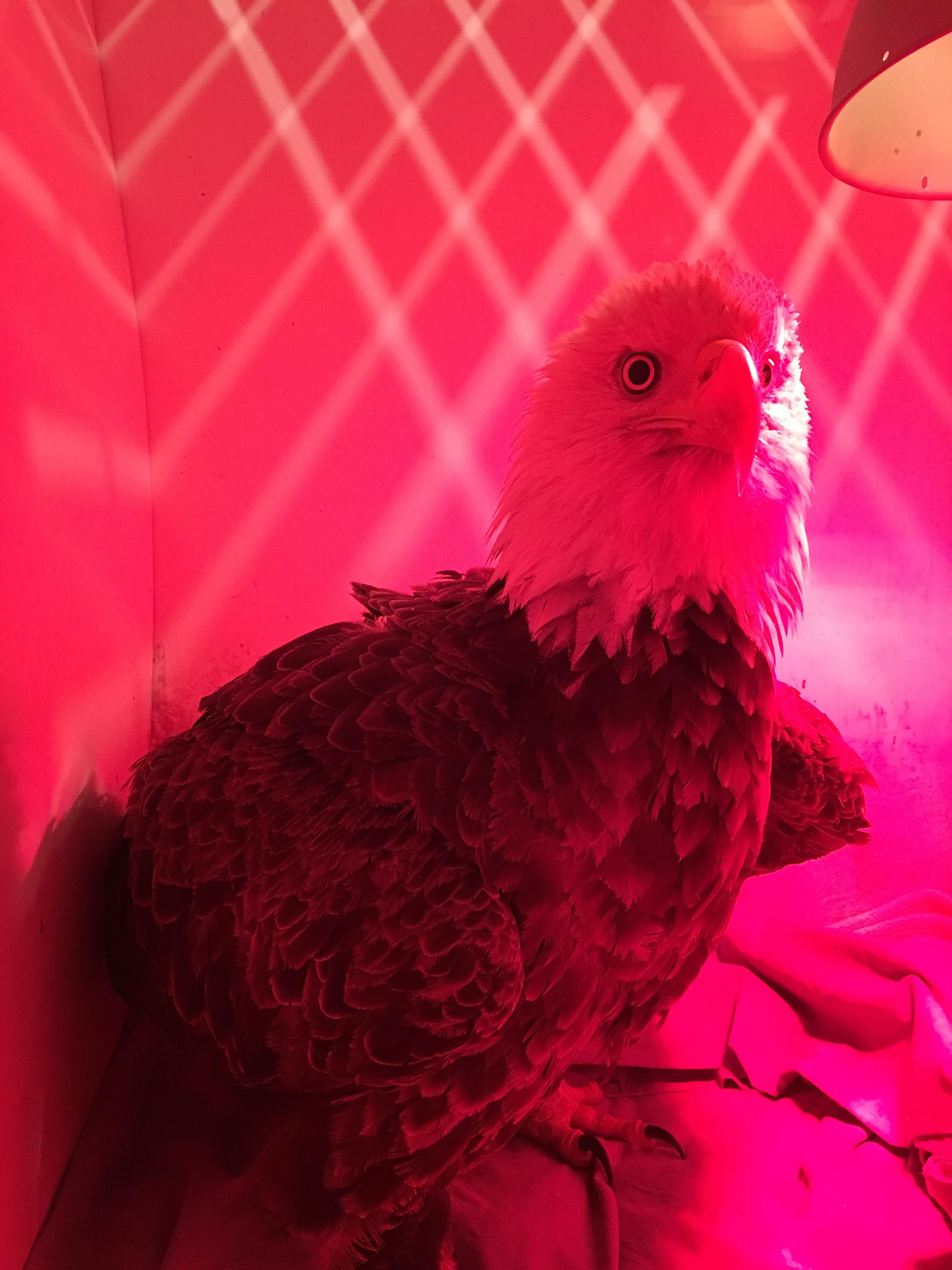 Lead poisoned eagle under care at Cobequid Wildlife Rehabilitation Centre